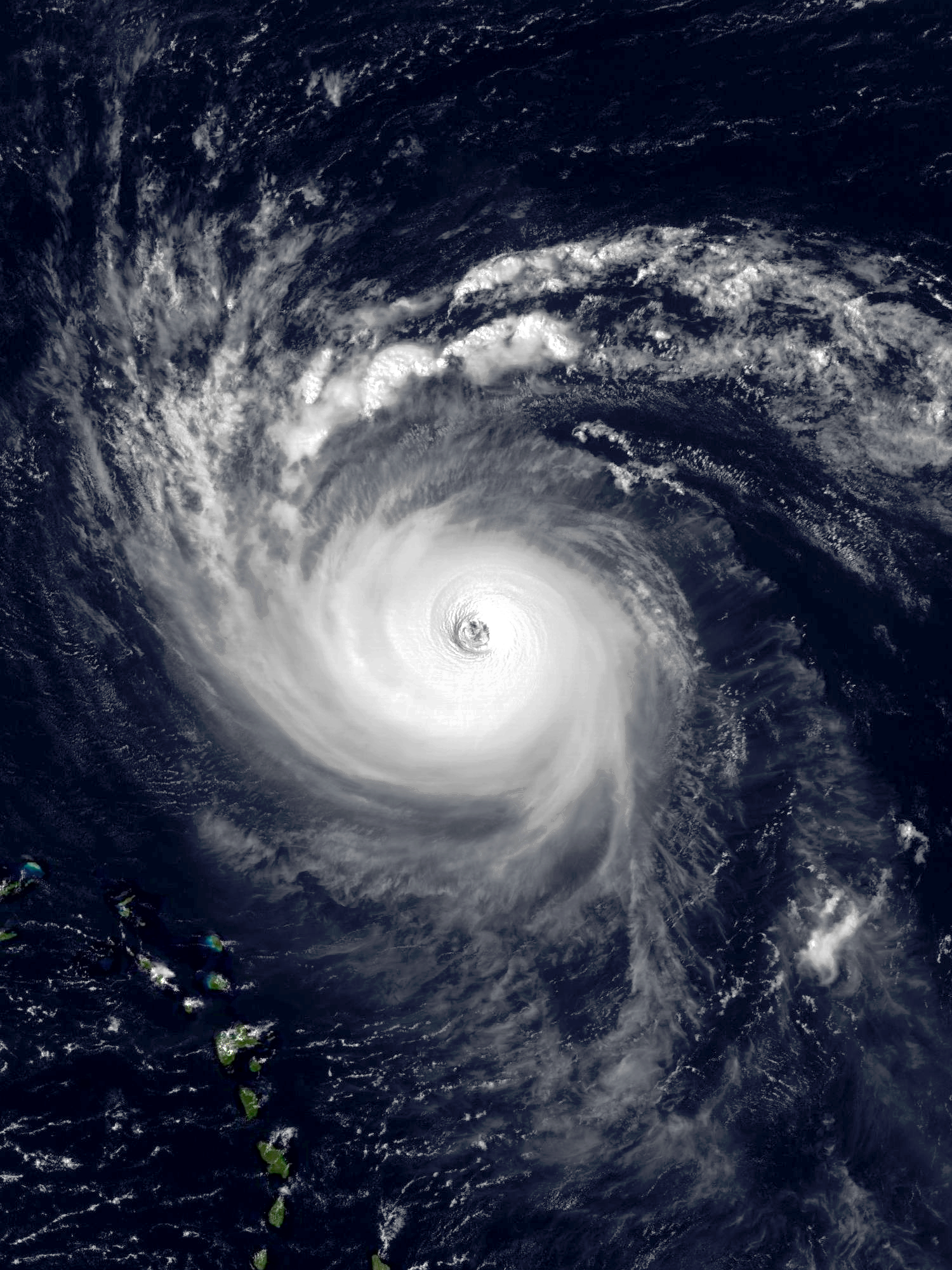 Hurricane Isabel at peak intensity northeast of the Lesser Antilles on September 12, 2003